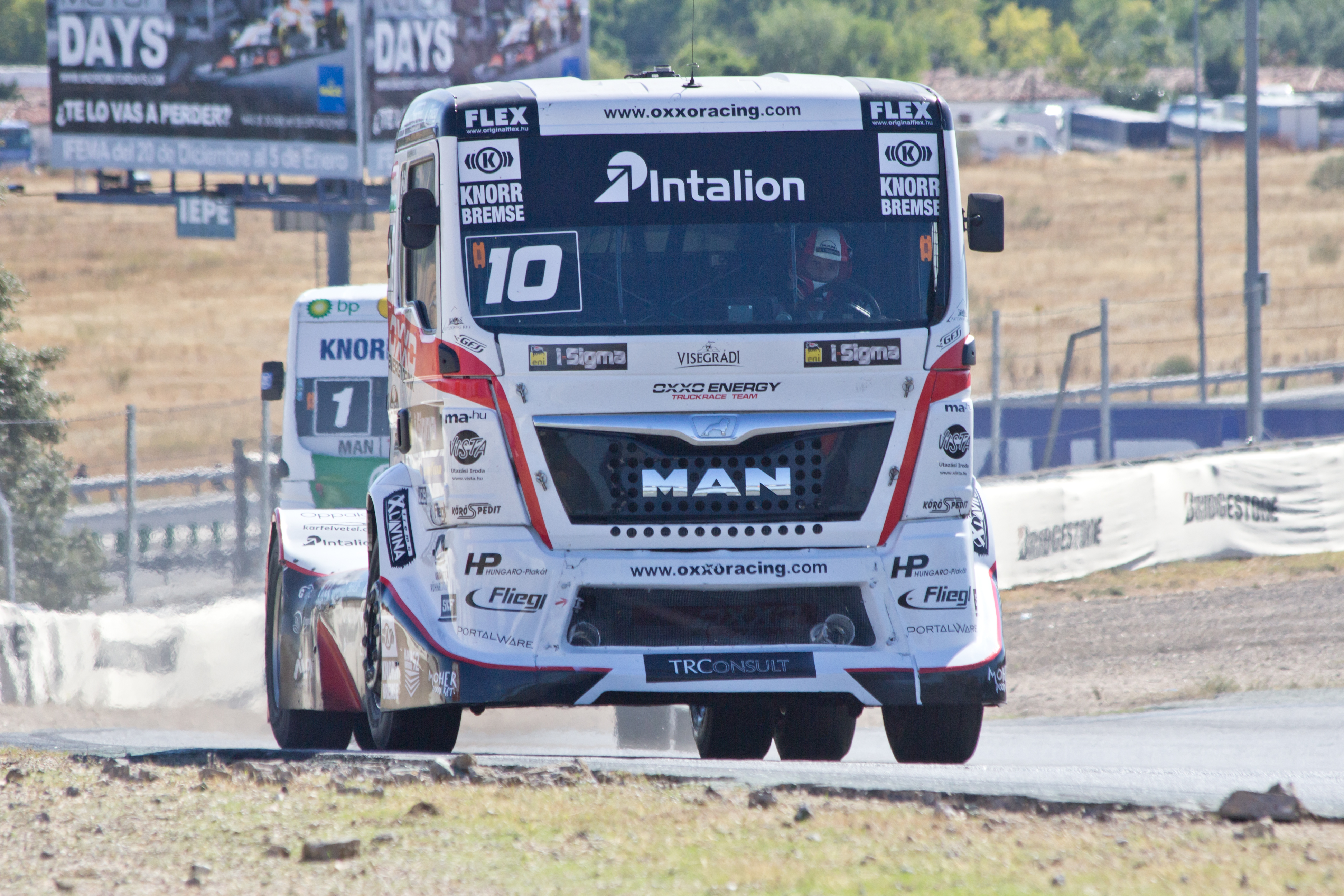 Truck pilot Norbert Kiss at the Spain Truck GP 2013.